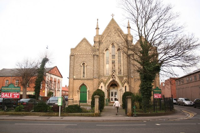 Christchurch Former Christchurch by J.D.Paine in 1836-7, now Kingsman Interiors